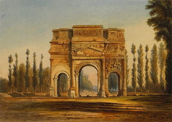 Print based on daguerreotype by French photographer Noël Paymal Lerebours (1807-1873). L'arc de triomphe d'Orange (Vaucluse, France). Etching and aquatint, color, with hand-coloring. Illustration in: "Excursions Daguerriennes", Paris: Rittner et Goupil, 1842, plate 16.